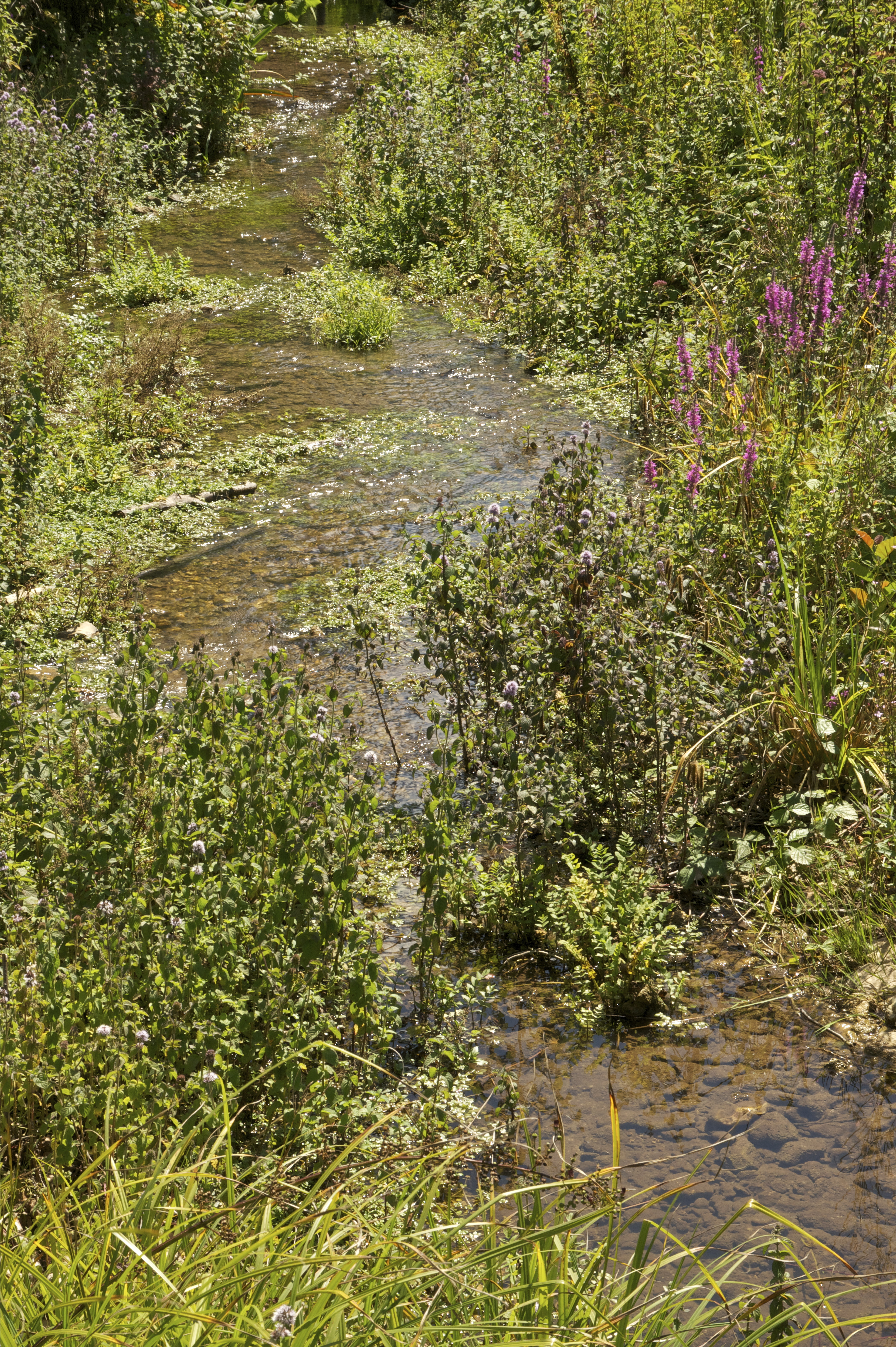 The Manaurie, small river tributary of the Vézère river, in Moulin-Haut, Rouffignac - Saint-Cernin de Reilhac, Dordogne, France.